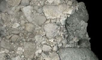 Conglomerate composed of carbonate rocks, sample from Ďurďové, Strážovské vrchy Mts., Western Carpathians, Slovakia.